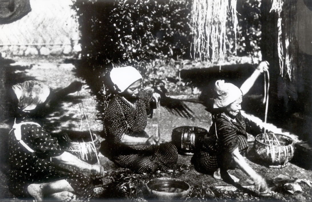 Basho fibre production, Okinawa, Japan